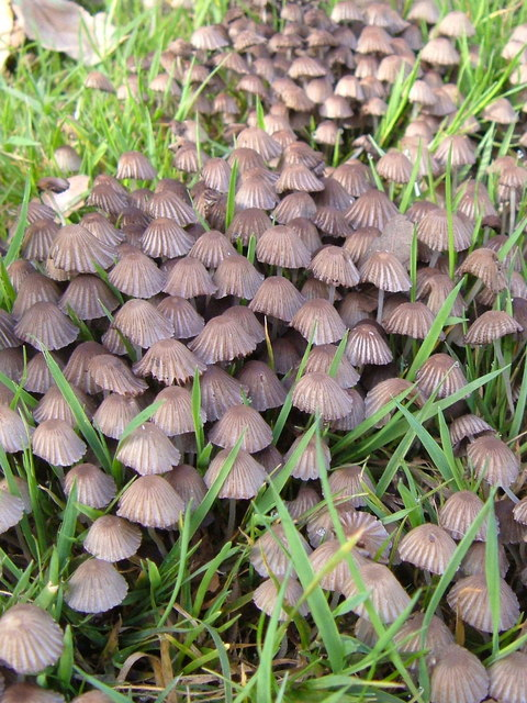 Fungi on Southernhay Green, Exeter A burst of the wild on the manicured gardens in the centre of Southernhay - these look a bit like Coprinellus disseminatus, the Fairy Inkcap.